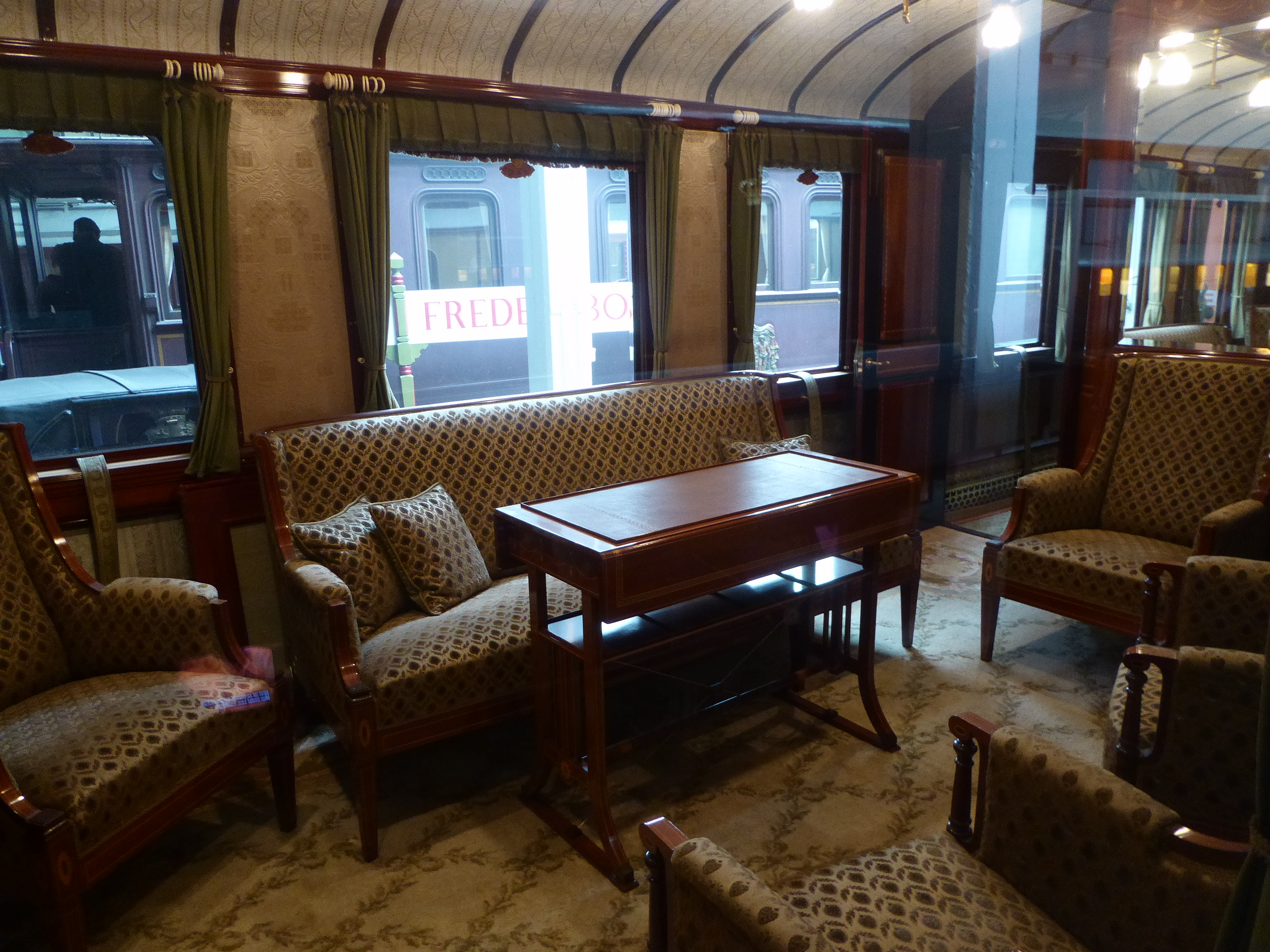 Interior of the royal Danish saloon car DSB S 8 build in 1900 at Danmarks Jernbanemuseum in Odense. The car was used by the royal family until 1937.